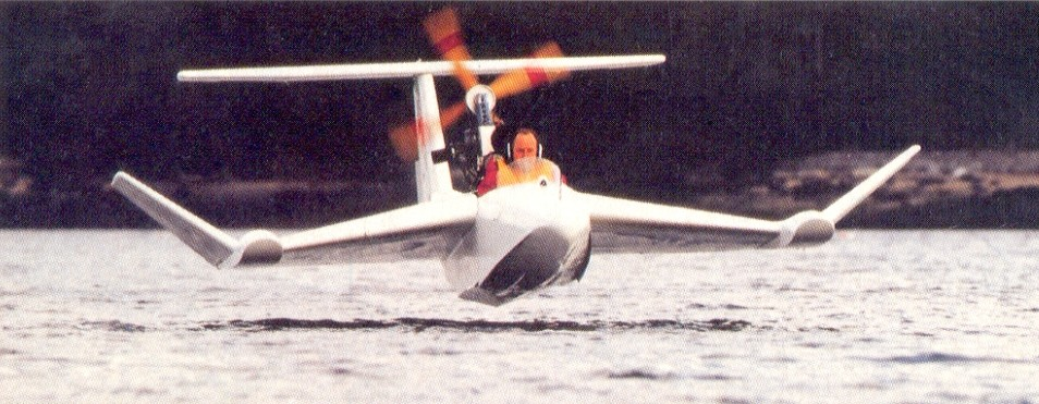 The Pennec Navion, single-seat Wing in Ground effect aircraft, designed and built by Serge Pennec